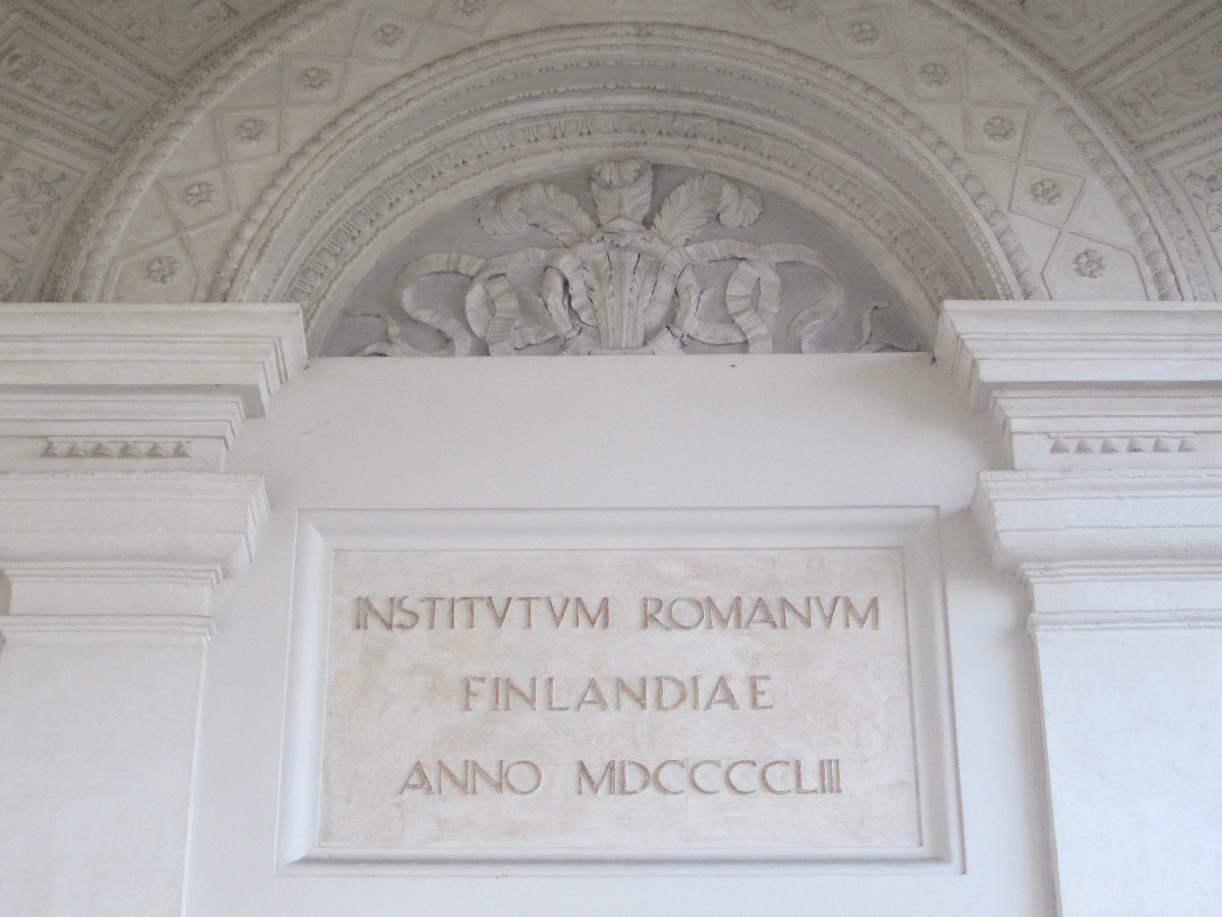 Inscription "Institutum Romanum Finlandiae. Anno MDCCCCLIII" ("The Finnish Institute in Rome, 1953"). Villa Lante, Rome. The date is according to the restauration of the villa; institute was actually founded in 1954.